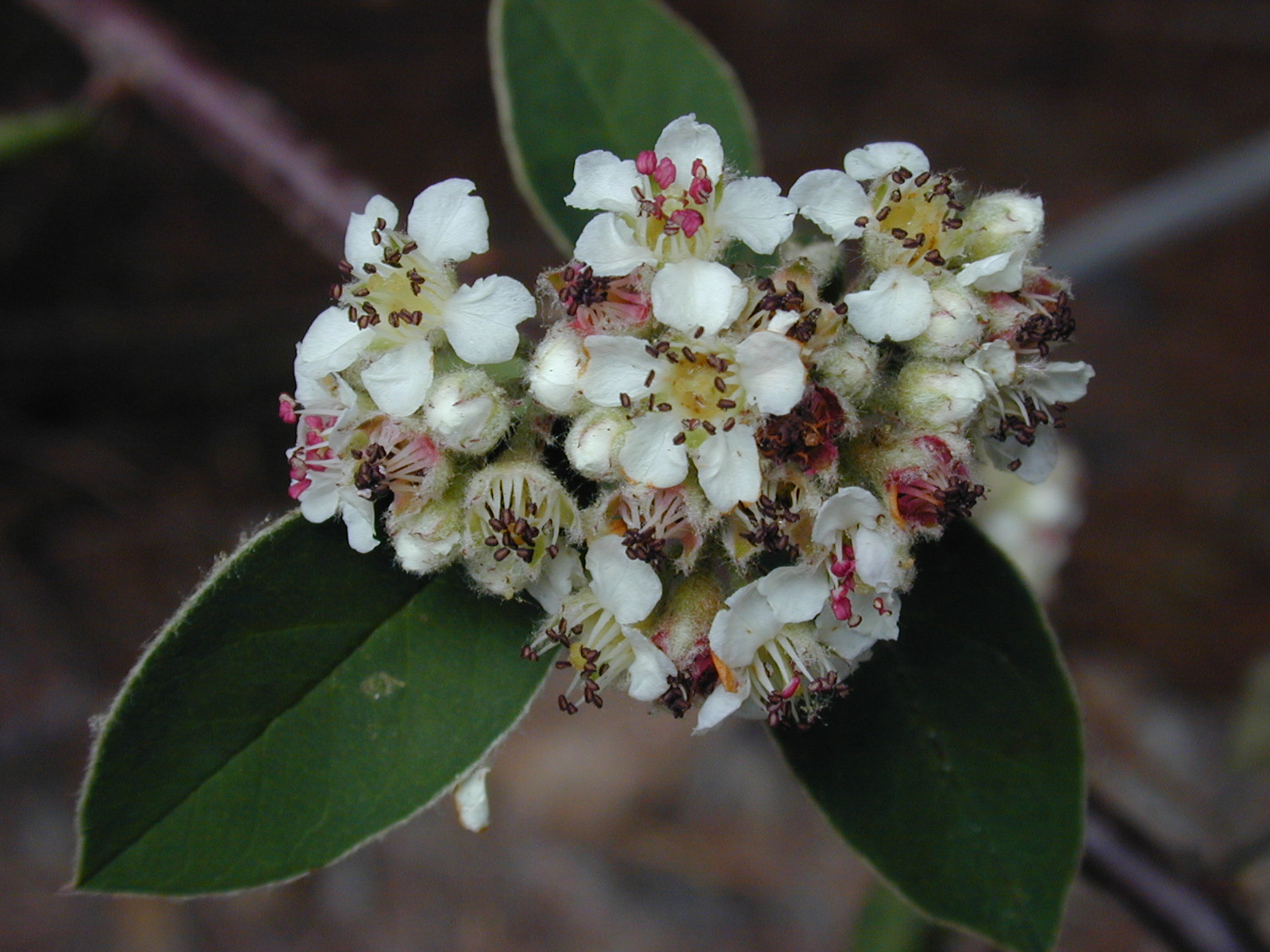 Cotoneaster pannosus (flowers). Location: Maui, Kula